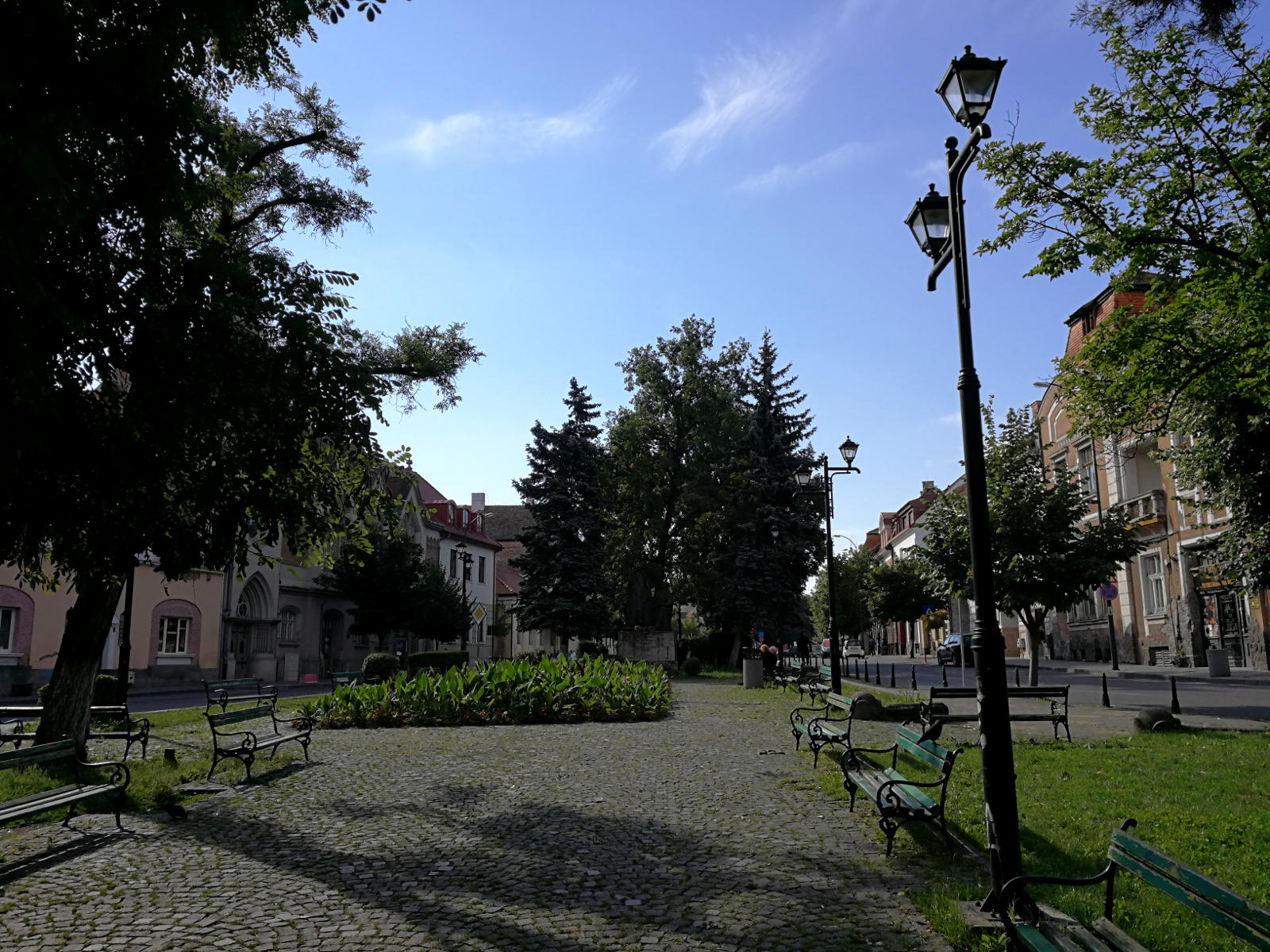 Bolyai Farkas street in Târgu Mureș, Romania